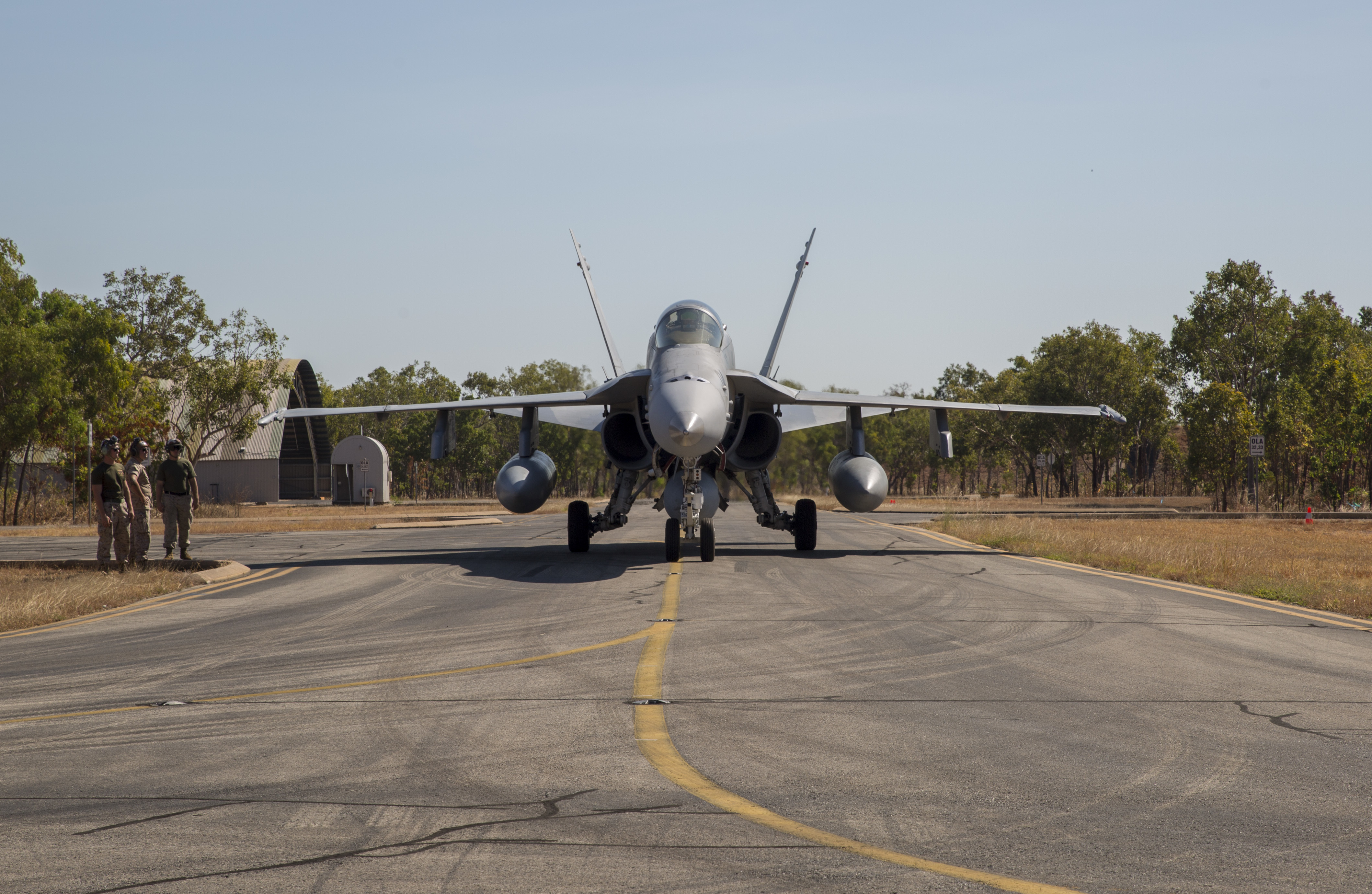 An F/A-18C Hornet with Marine Fighter Attack Squadron (VMFA) 122, forward deployed to Marine Corps Air Station Iwakuni, Japan, taxis into an ordnance loading area after landing at Royal Australian Air Force Base Tindal, Australia, July 21, 2016. VMFA-122 traveled to RAAF Base Tindal for the first time to participate in Pitch Black 2016 and unit level training known as Southern Frontier. Pitch Black affords Marines with VMFA-122 the opportunity to integrate and increase interoperability with regional joint and coalition partners, while developing operational concepts for conducting sustained combat operations. Southern Frontier will help the squadron gain experience and qualifications in low altitude, air-ground, high explosive ordnance delivery at the unit level. (U.S. Marine Corps photo by Cpl. Nicole Zurbrugg)